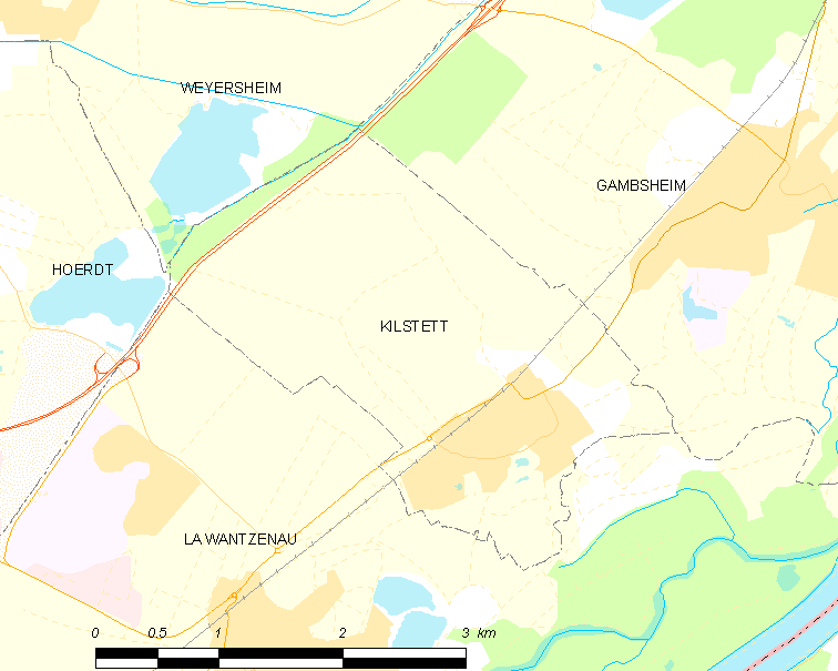 Map of French municipality